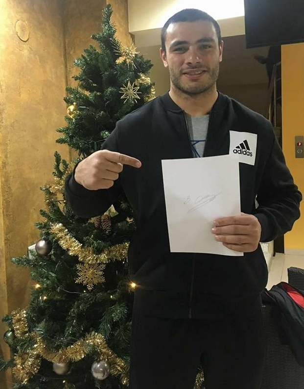 Guram Tushishvili with his autograph